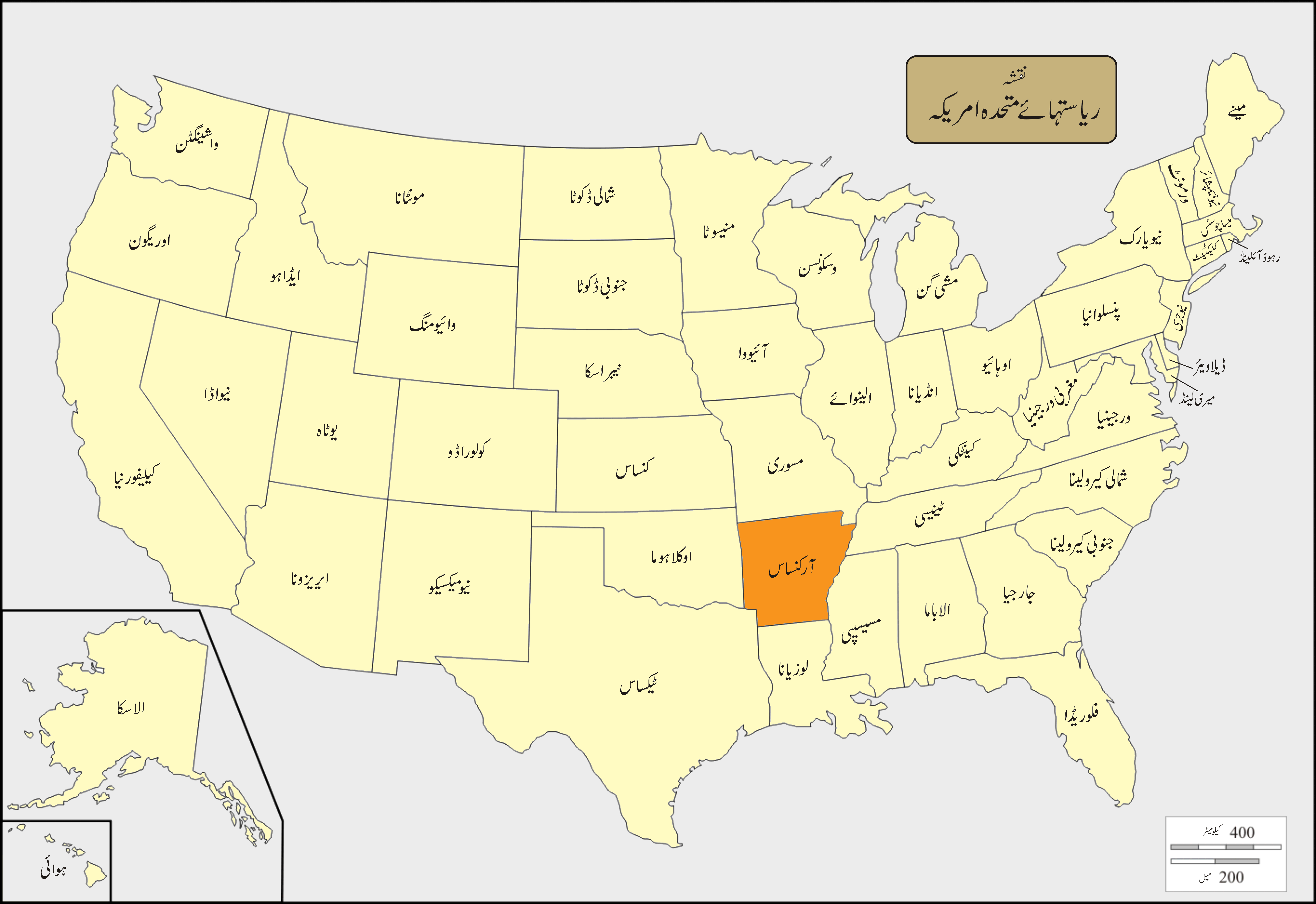 USA Names Arkansas